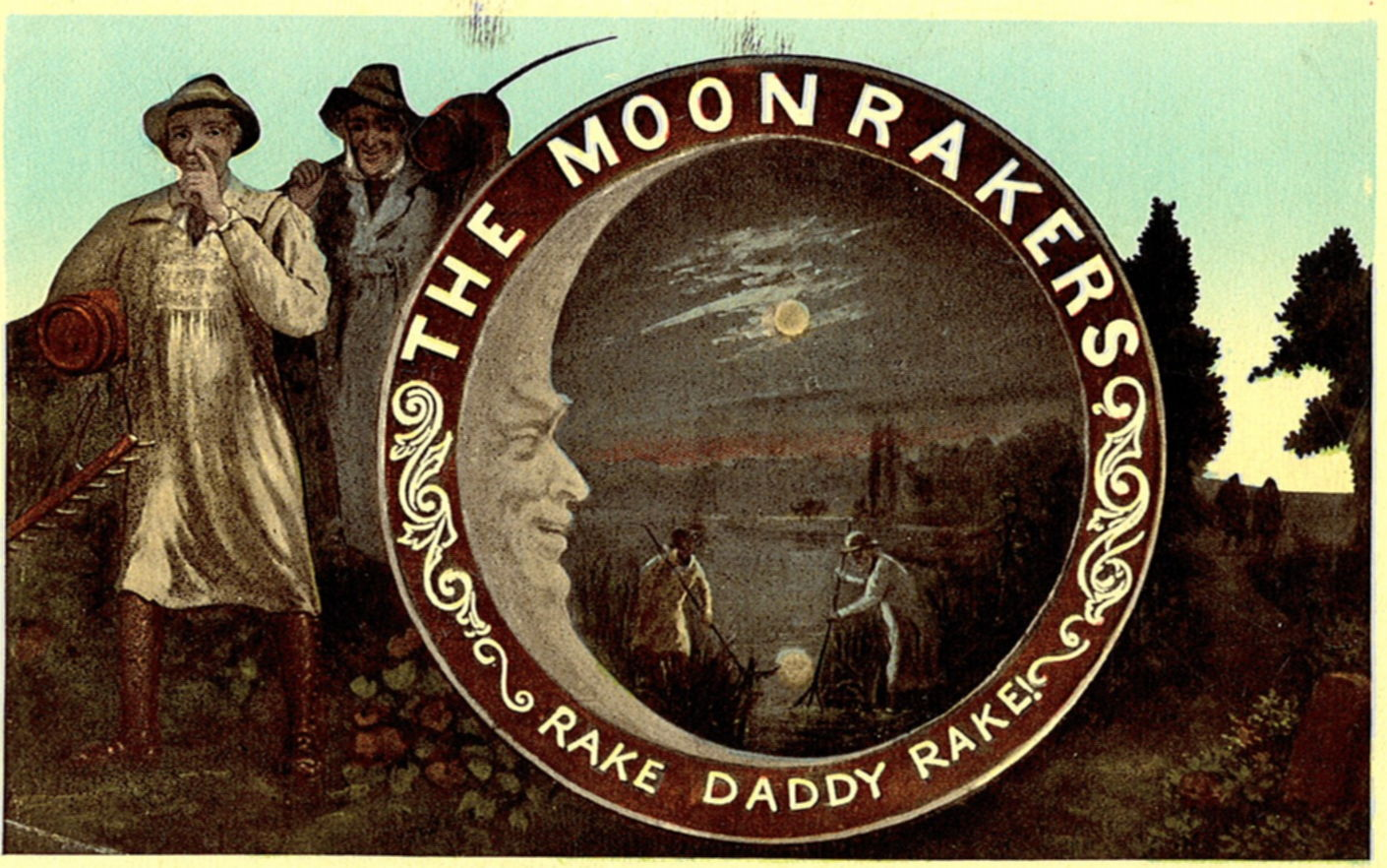 Detail from postcard of 1903 illustrating the Moonrakers legend.